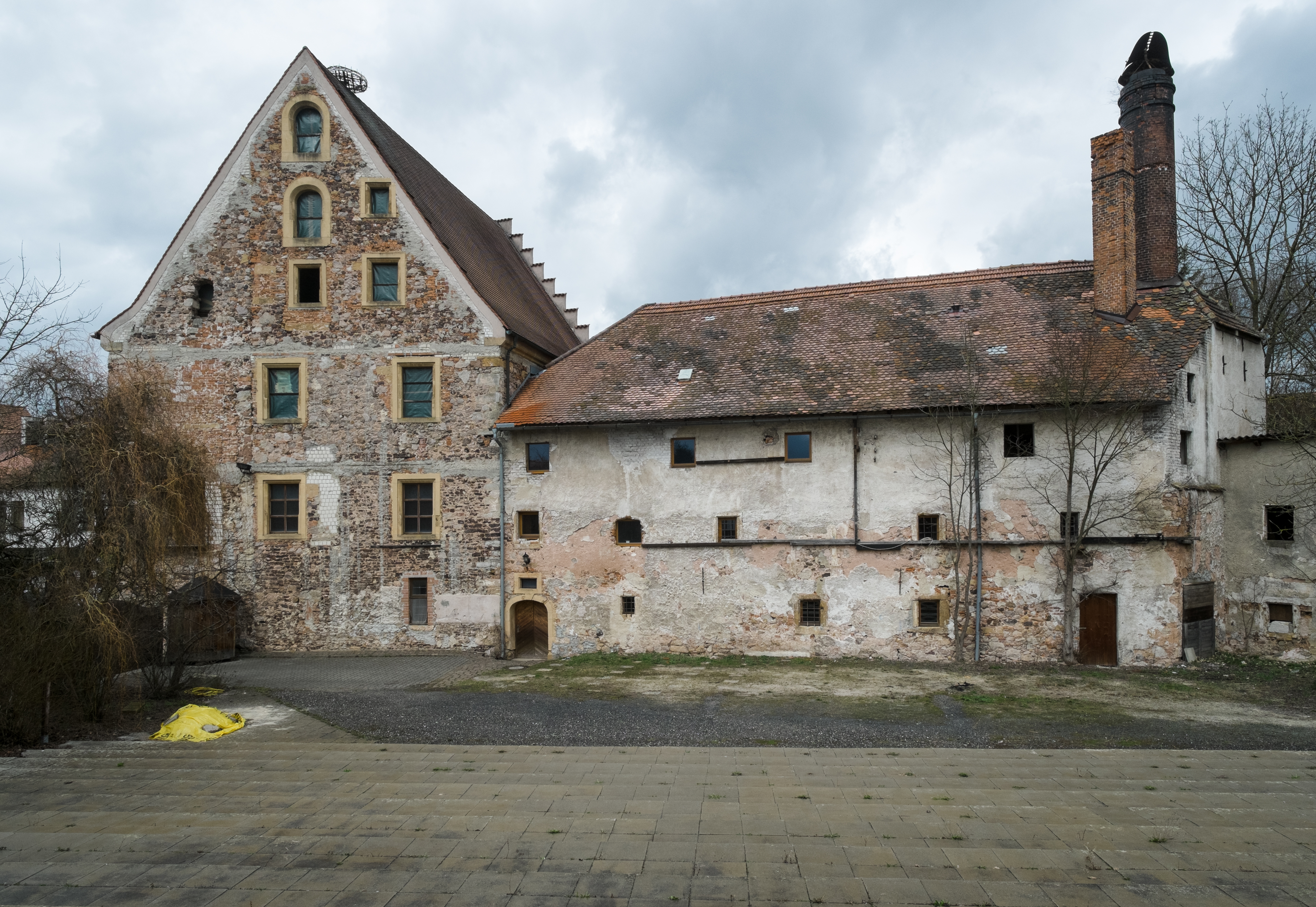 Mansion Pflegschloss in Hirschau, county Amberg-Sulzbach, Bavaria, Germany